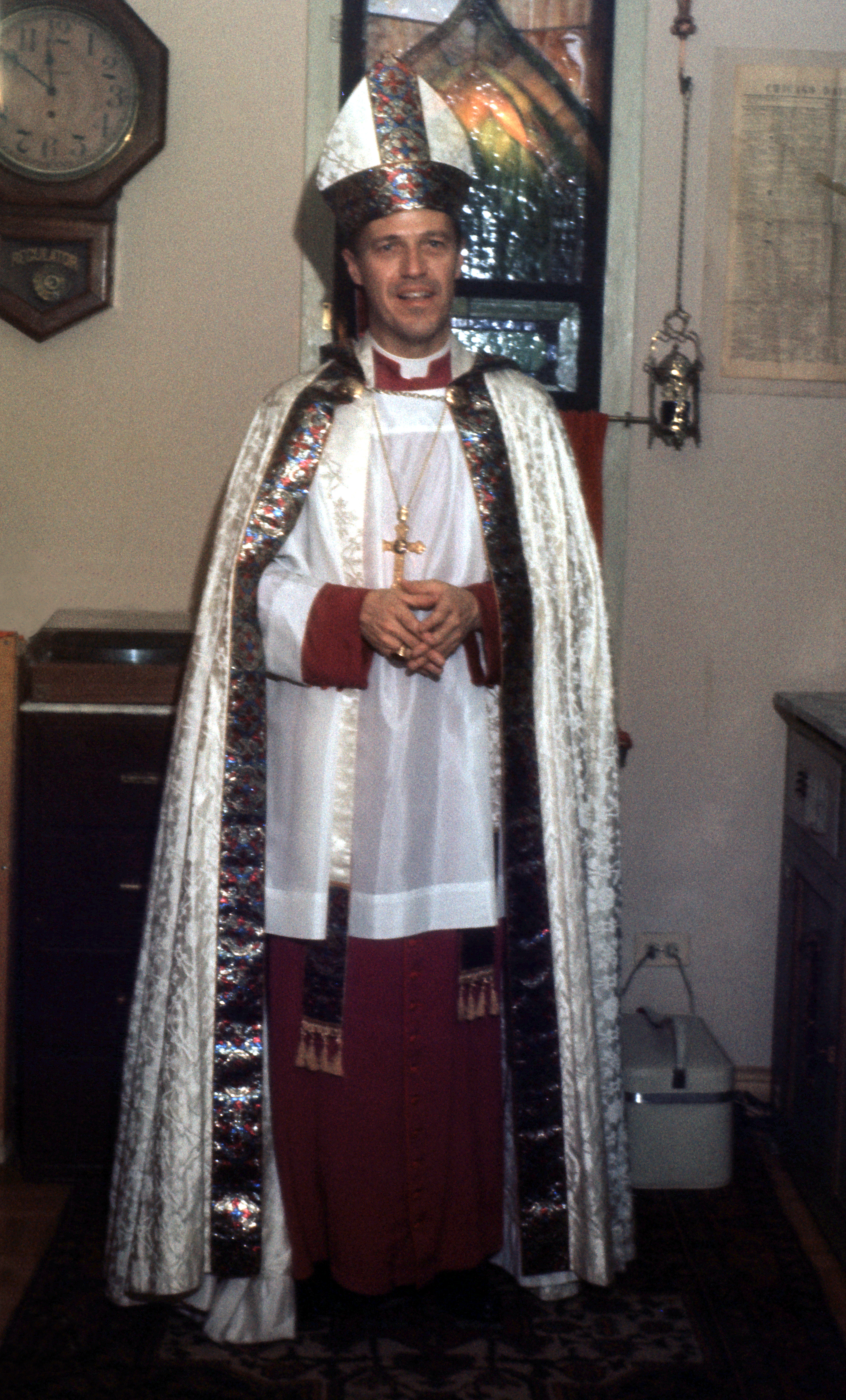 Photography by Victor Albert Grigas (1919-2017) Photography by Victor Albert Grigas (1919-2017)